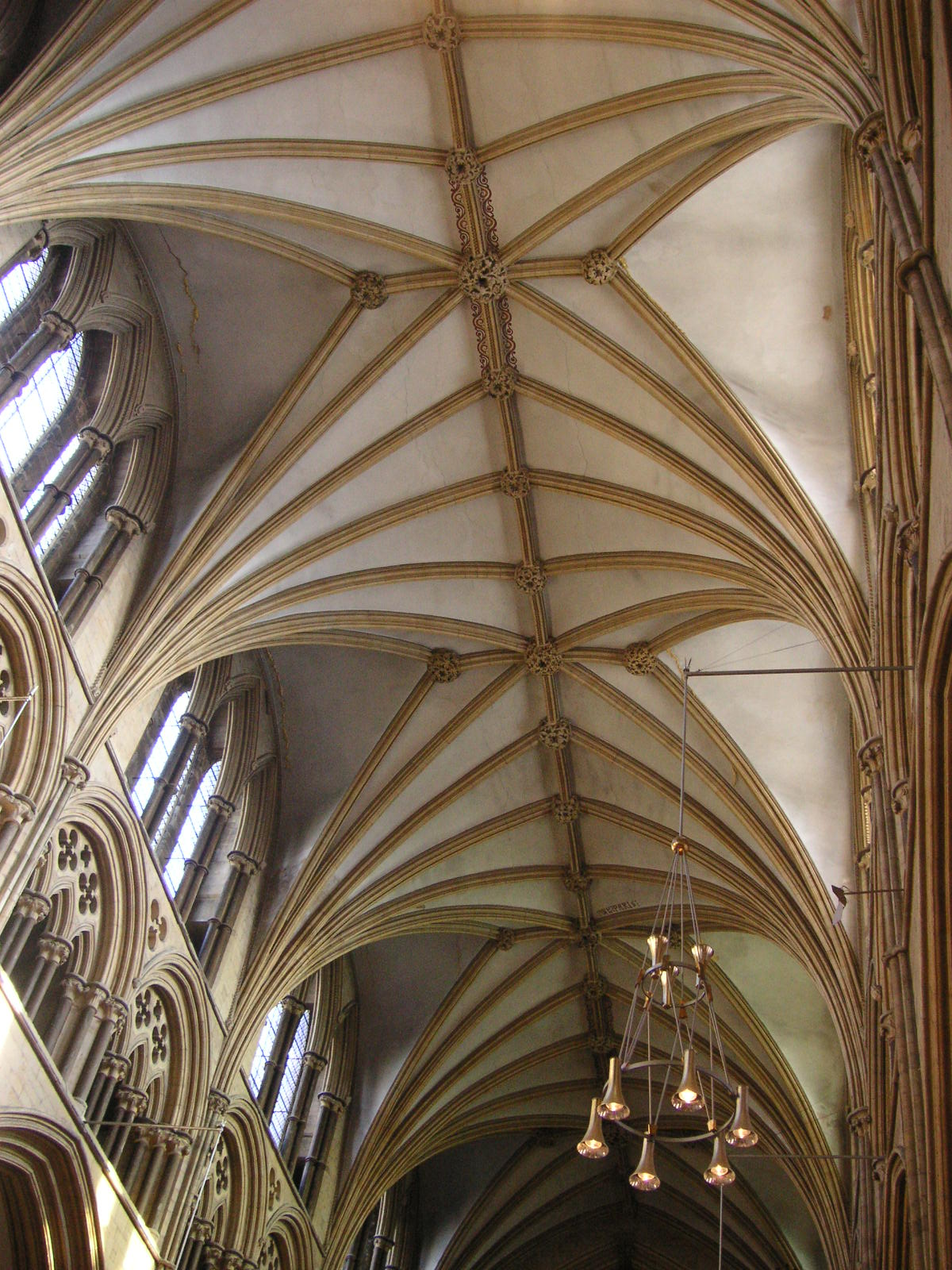 Nave vault of Lincoln Cathedral, England